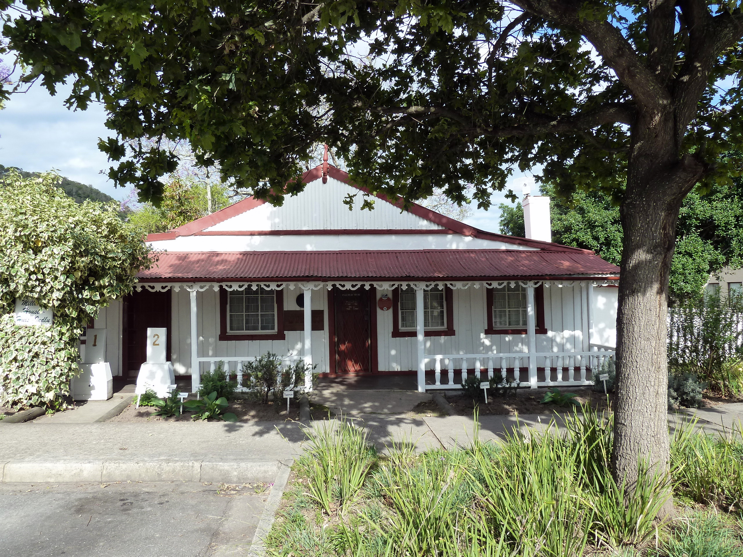 Millwood House, near Knysna This media shows a South African Protected Site with SAHRA file reference 9/2/052/0006.